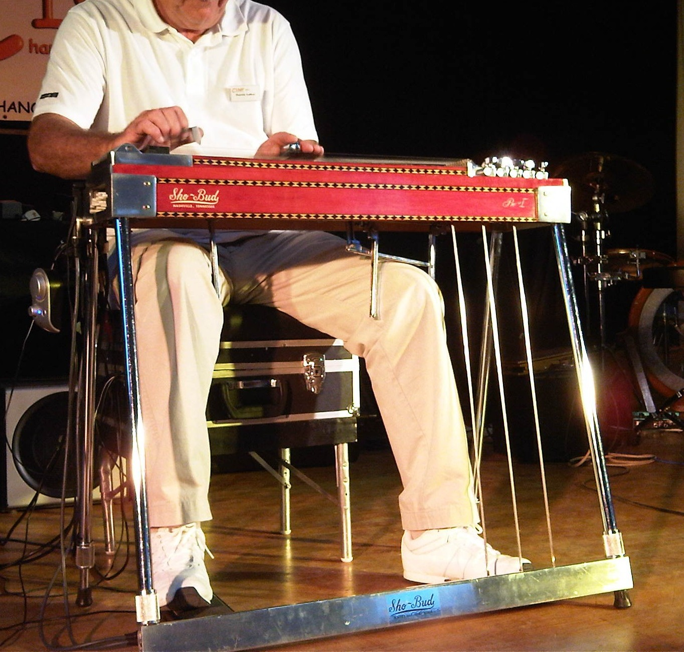 position du steeler jouant sur une pedal steel guitar